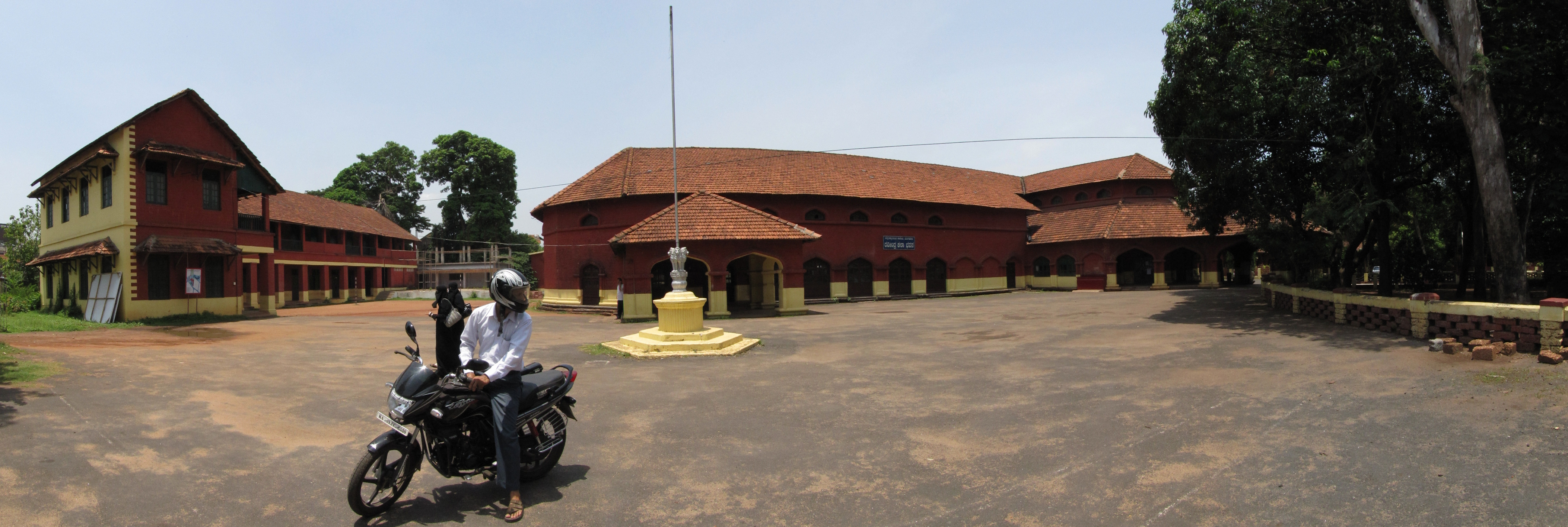 Univercity college Manglore